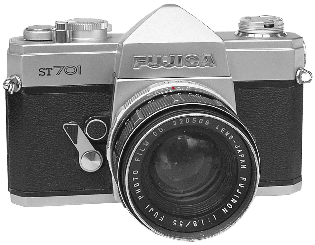 Fujica ST701, a M42 screw-mount camera from 1971.